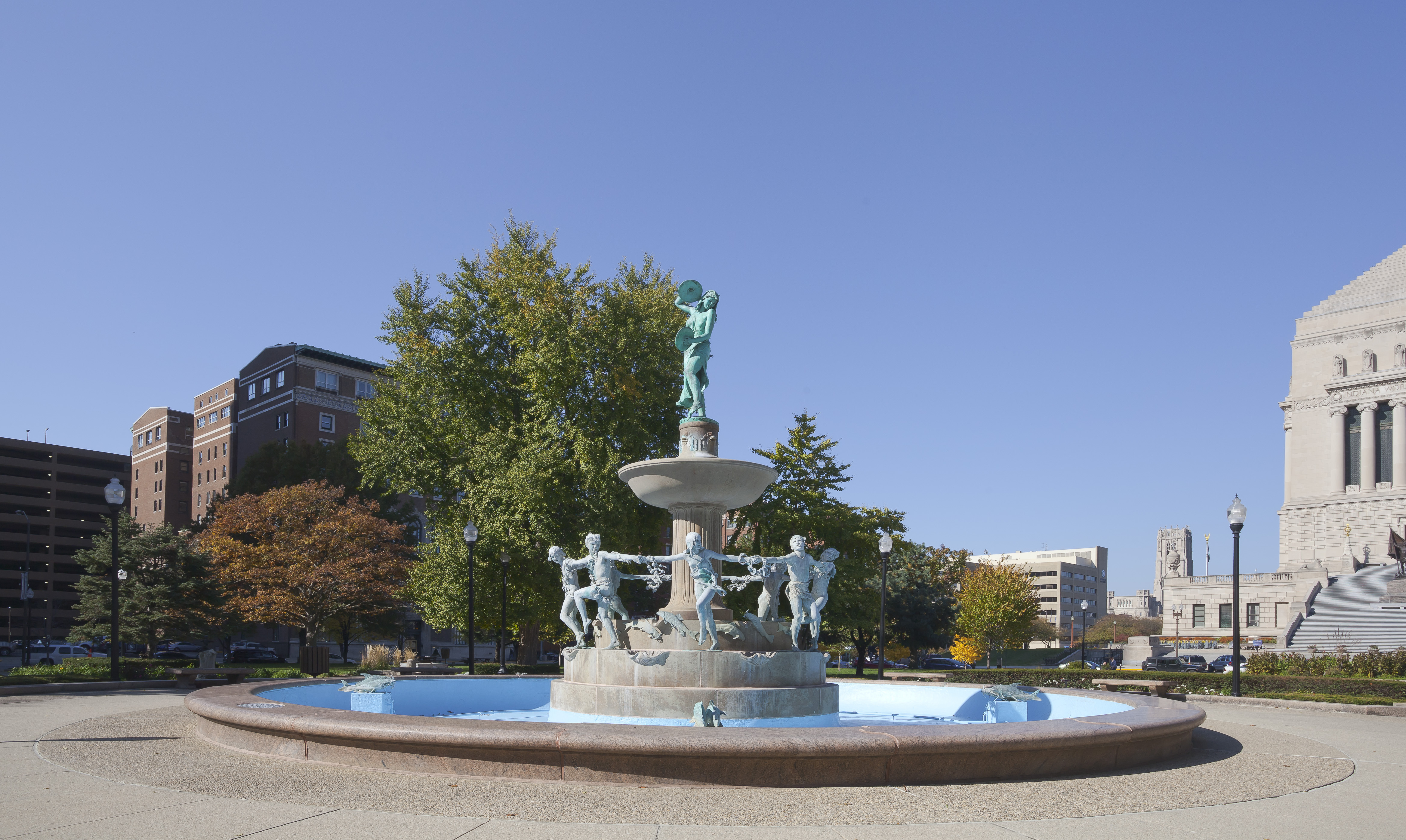 Depew Memorial Fountain, Indianapolis, USA